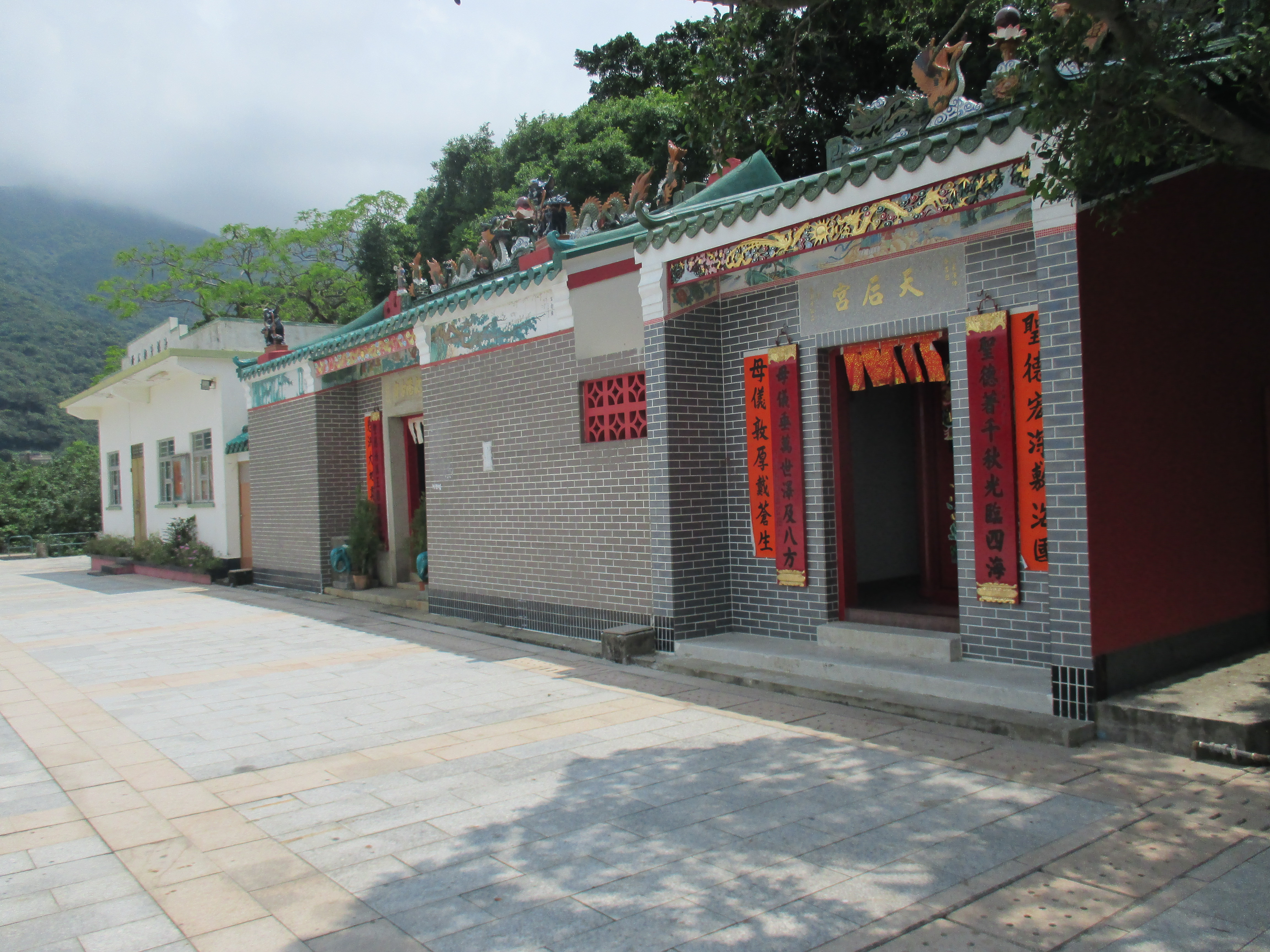 Sha Lo Wan. From left to right: Sha Lo Wan Village Office, Pa Kong Ancient Temple and Tin Hau Palace.